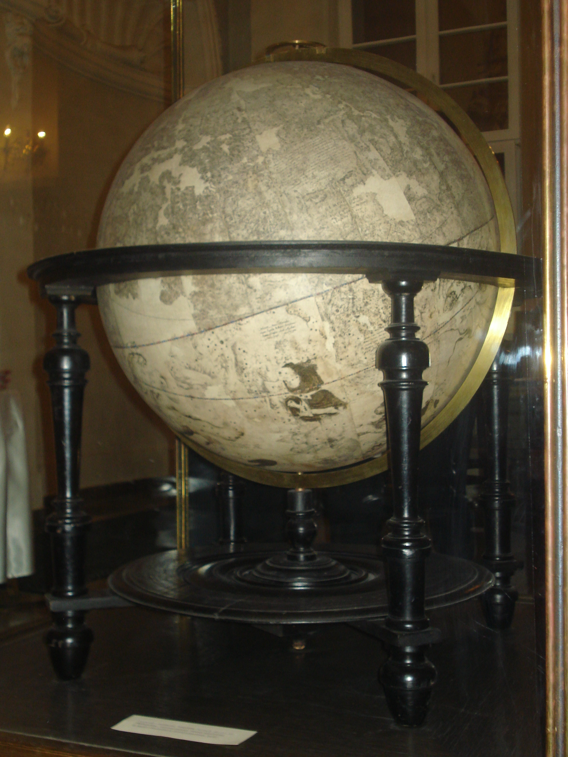 Terrestrial globe by Guiljelmus Jansonius Blaeuw of Amsterdam (1622) in the White hall of the Vilnius university library